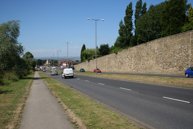 Bawtry Road, Brecks. Otherwise known as the A631, taken from near Hollin Hill Farm